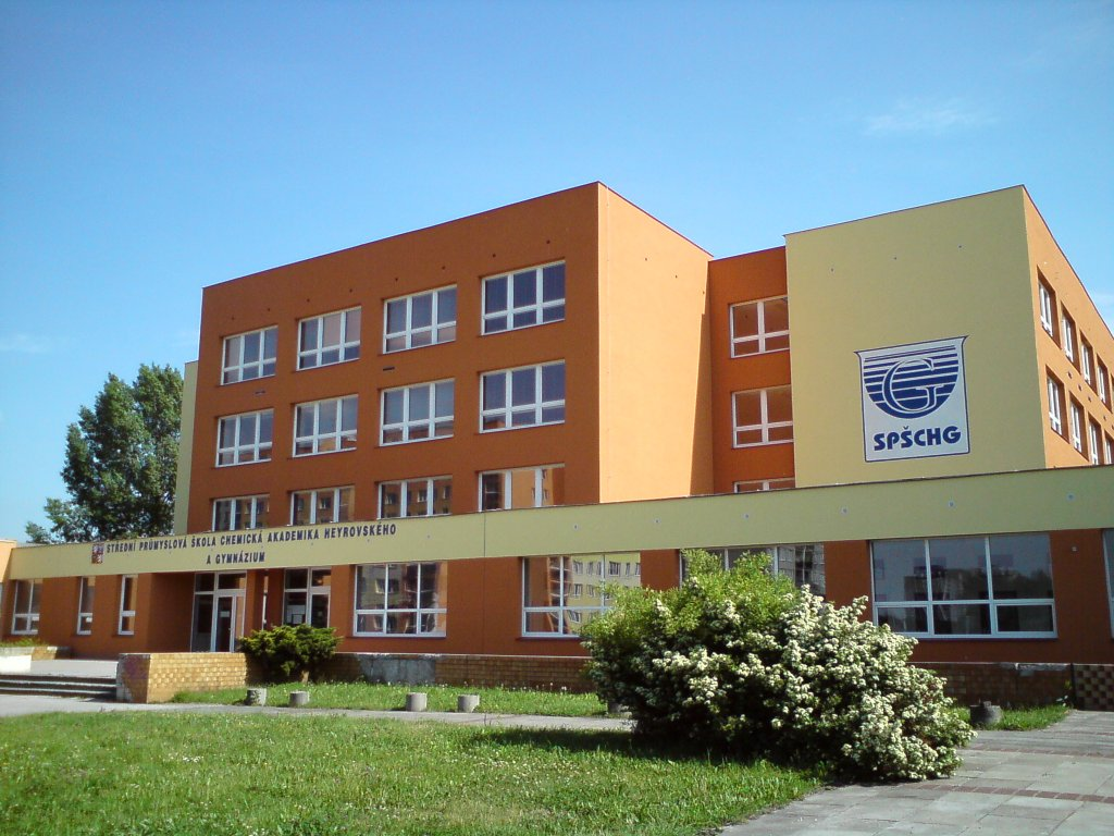 Building of Secondary Technical Chemical School of Academician Heyrovský and Grammar School in Ostrava-Zábřeh.